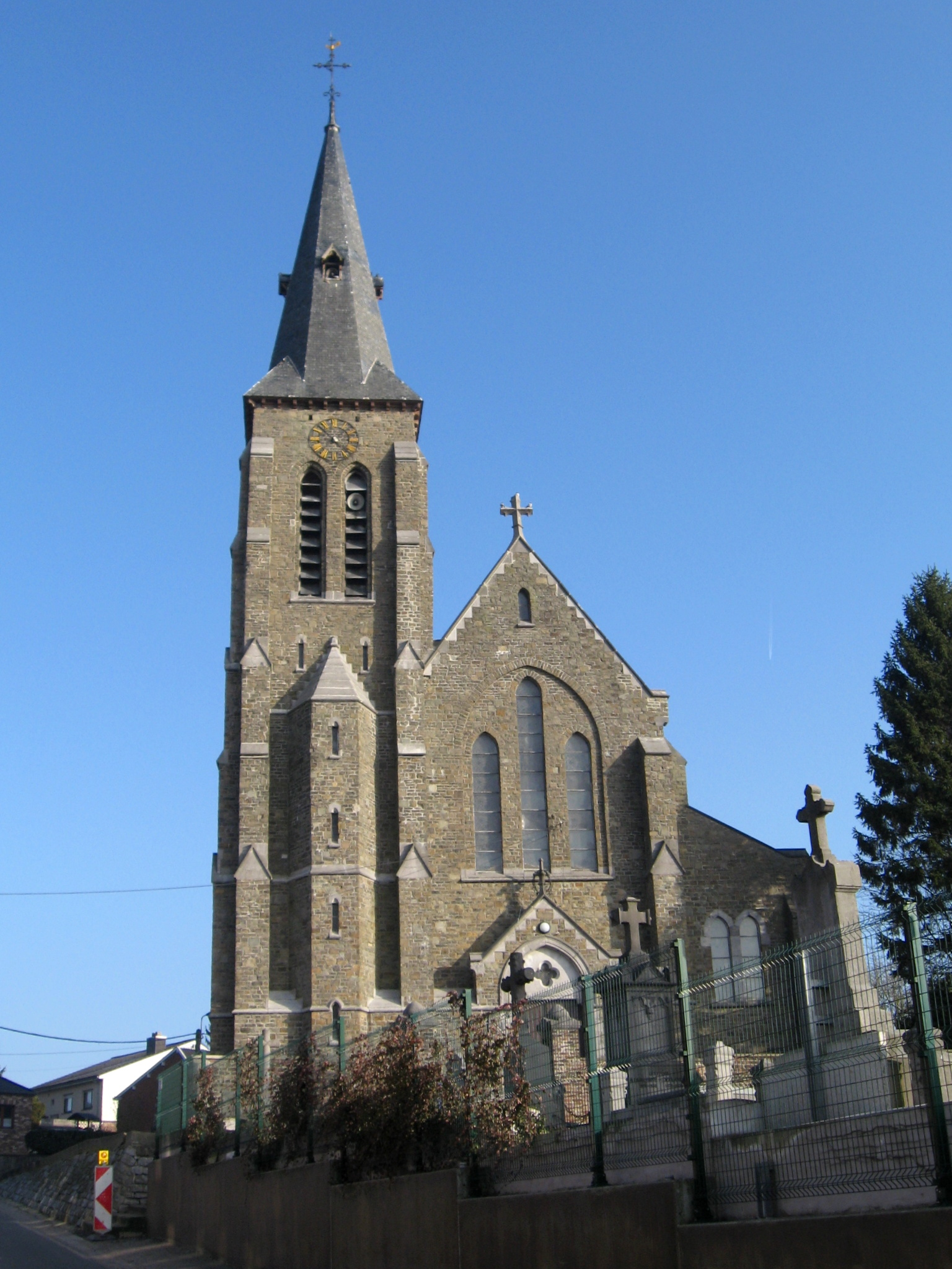 Church of Saint Cornelius in Fécher, Soumagne, Liège, Belgium